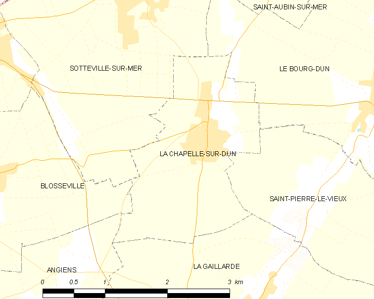 Map of French municipality La Chapelle-sur-Dun